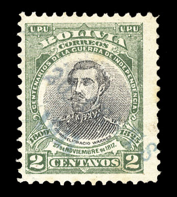 Bolivia 1911 "20 Cents/1911" Villa Bella provisional surcharge on 2c.